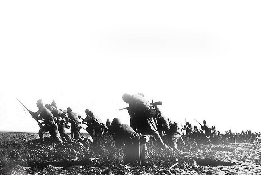 Assault of Ottoman soldiersTürkçe: Türk askerinin taarruz ani